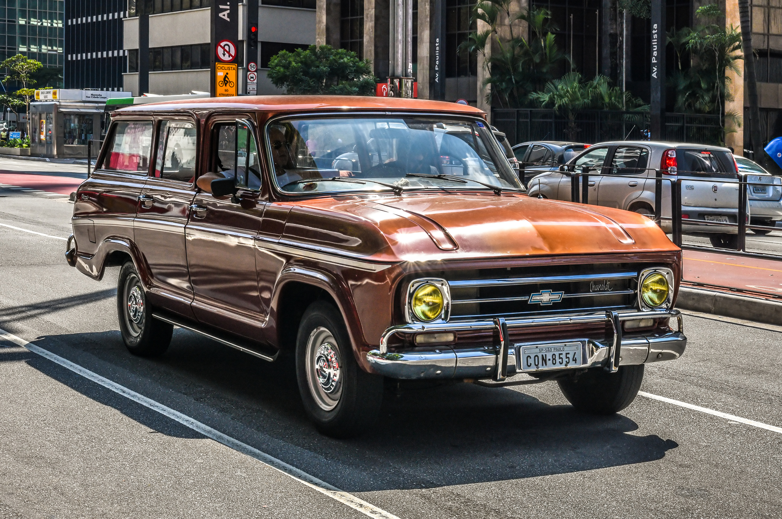 Chevrolet car in Avenida Paulista